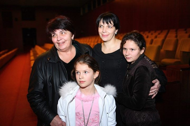 Catherine Bohomolec with her grandchildren